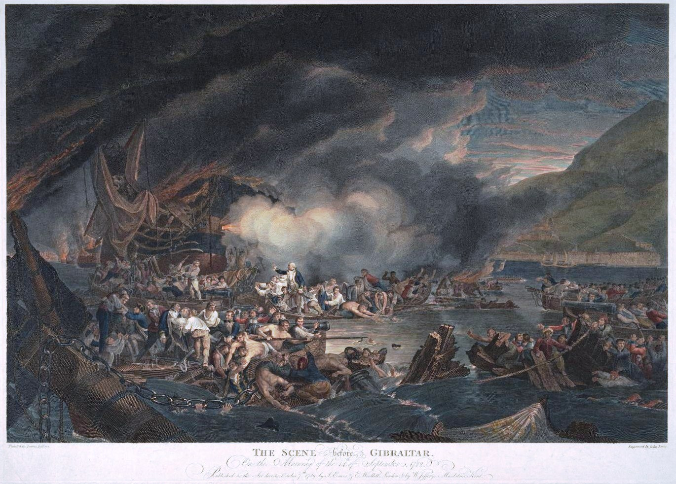 Siege of Gibraltar. September 1782. Sailors in boats near burning ship in harbor, attempting to rescue the wounded and dying among wreckage in foreground.